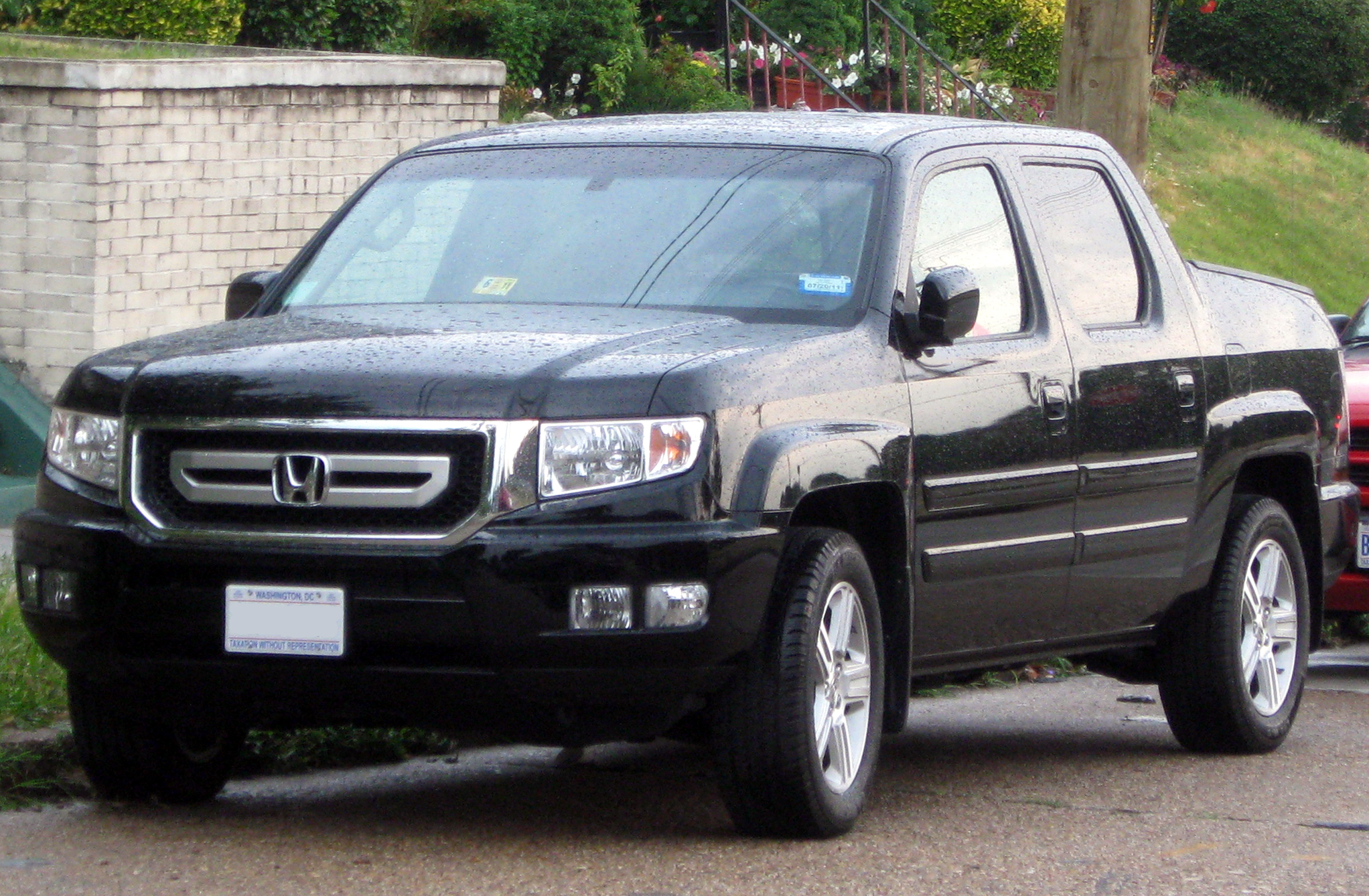 2009-2011 Honda Ridgeline photographed in Washington, D.C., USA.